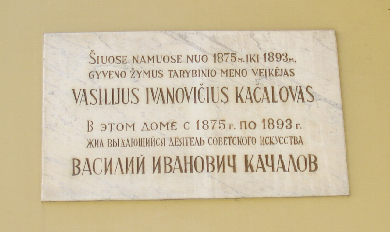 Wasily Kachalov memorial tablet in Vilnius